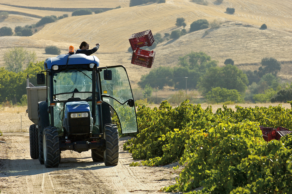 Grape Haverst at Ricardo Benito Wineyards in Navalcarnero This photograph can be used for publications, including this copyright statement: “©PromoMadrid, author Max Alexander”. Esta fotografía puede usarse en publicaciones, incluyendo la declaración “©PromoMadrid, autor Max Alexander”.